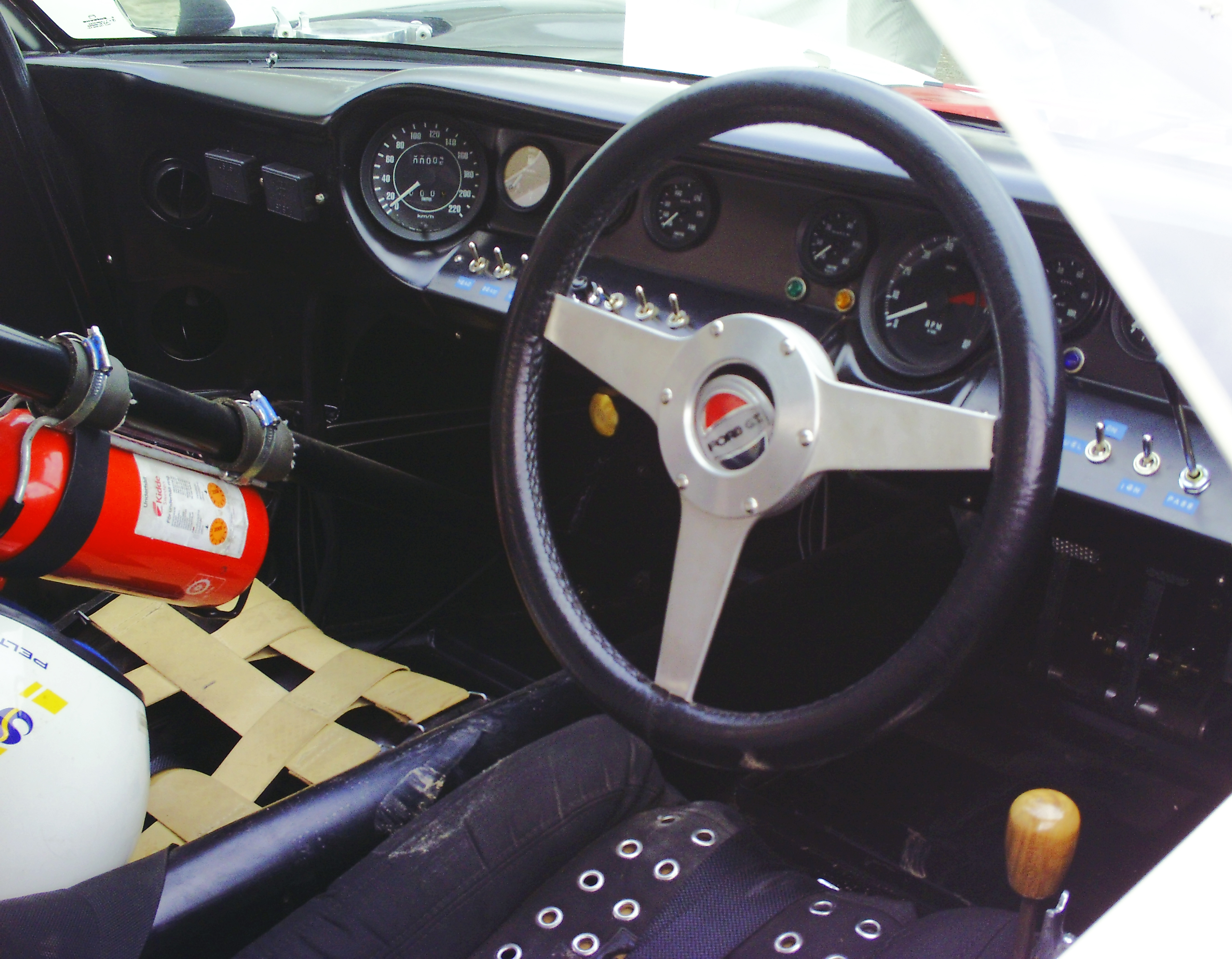 To celebrate Svenska Bilsportförbundet's 75 anniversary, a historic race was held at Falkenbergs Motorbana. Here is the interior of a Ford GT40 driven by Kenneth Persson.